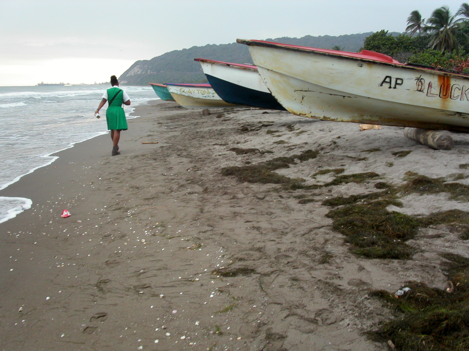 A schoolchild walks past a row of fishing boats on the beach near Alligator Pond, Jamaica. In the distance, a bauxite cargo ship sails past Pedro Bluff. Photo by Gerry Manacsa, March 2004.